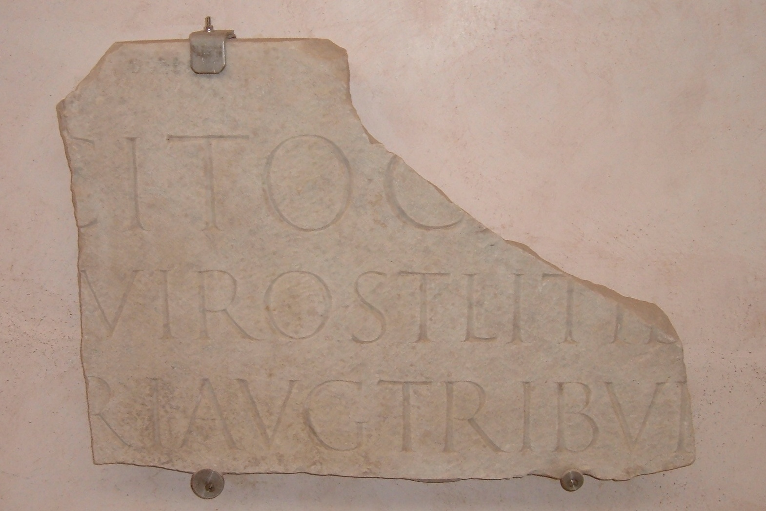 Sepulchral inscription for P. Cornelius Tacitus, the consul and historian. Museo Epigrafico, Rome. CIL VI 1574 = CIL VI 41106 = AE 1995, 92 = AE 2000, 160: Ta]cito(?) Ca[---/ --- X]viro stlitib[us iudicandis ---/ --- quaesto]ri Aug(usti) tribun[o plebis